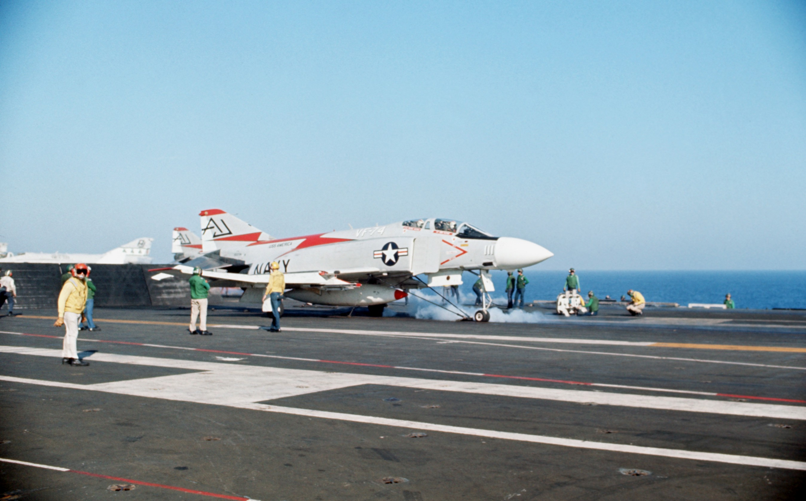 A U.S. Navy McDonnell Douglas F-4J Phantom II from fighter squadron VF-74 Be-Devilers is prepared for launch during flight operations aboard the attack aircraft carrier USS America (CVA-66). VF-74 was assigned to Attack Carrier Air Wing 8 (CVW-8) aboard the America for a deployment to Vietnam from 5 June 1972 to 24 March 1973.